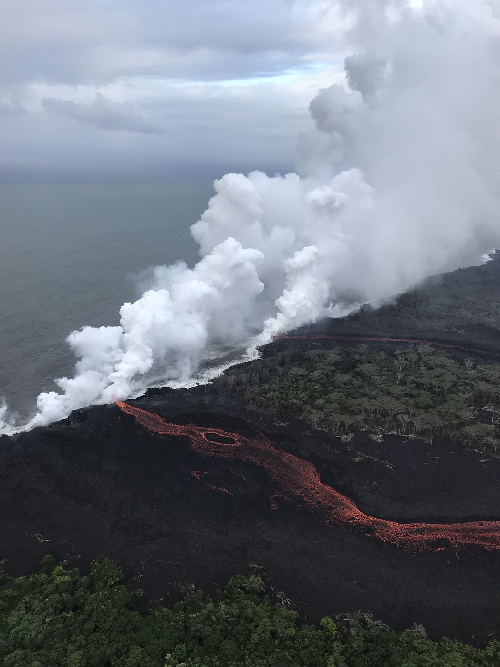 Lava continues to enter the sea at two locations this morning. During this morning's overflight, the wind was blowing the "laze" plumes along the shoreline toward the southwest.